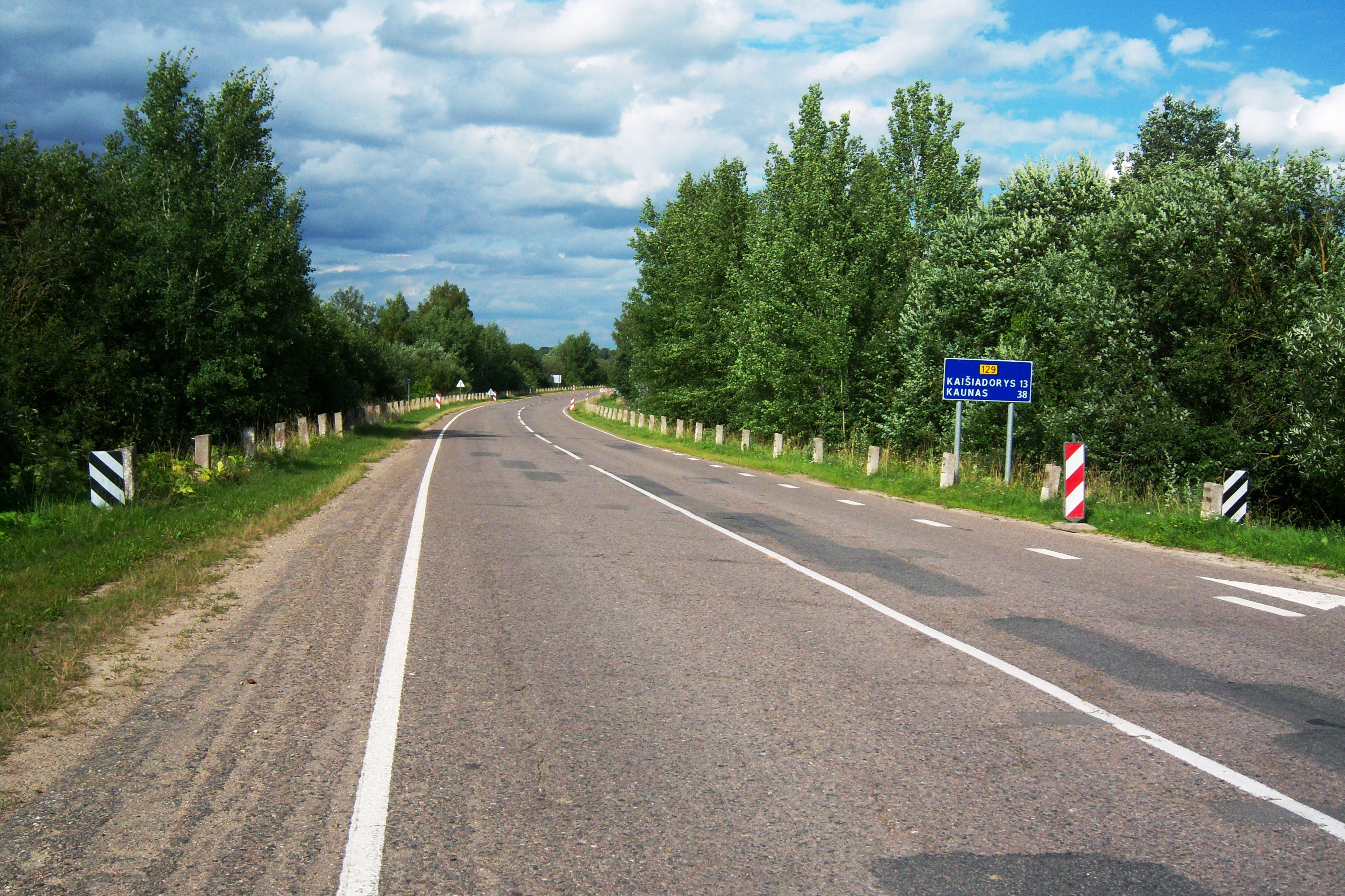 Road KK129 near Tadarava, Kaišiadorys district. Lithuania